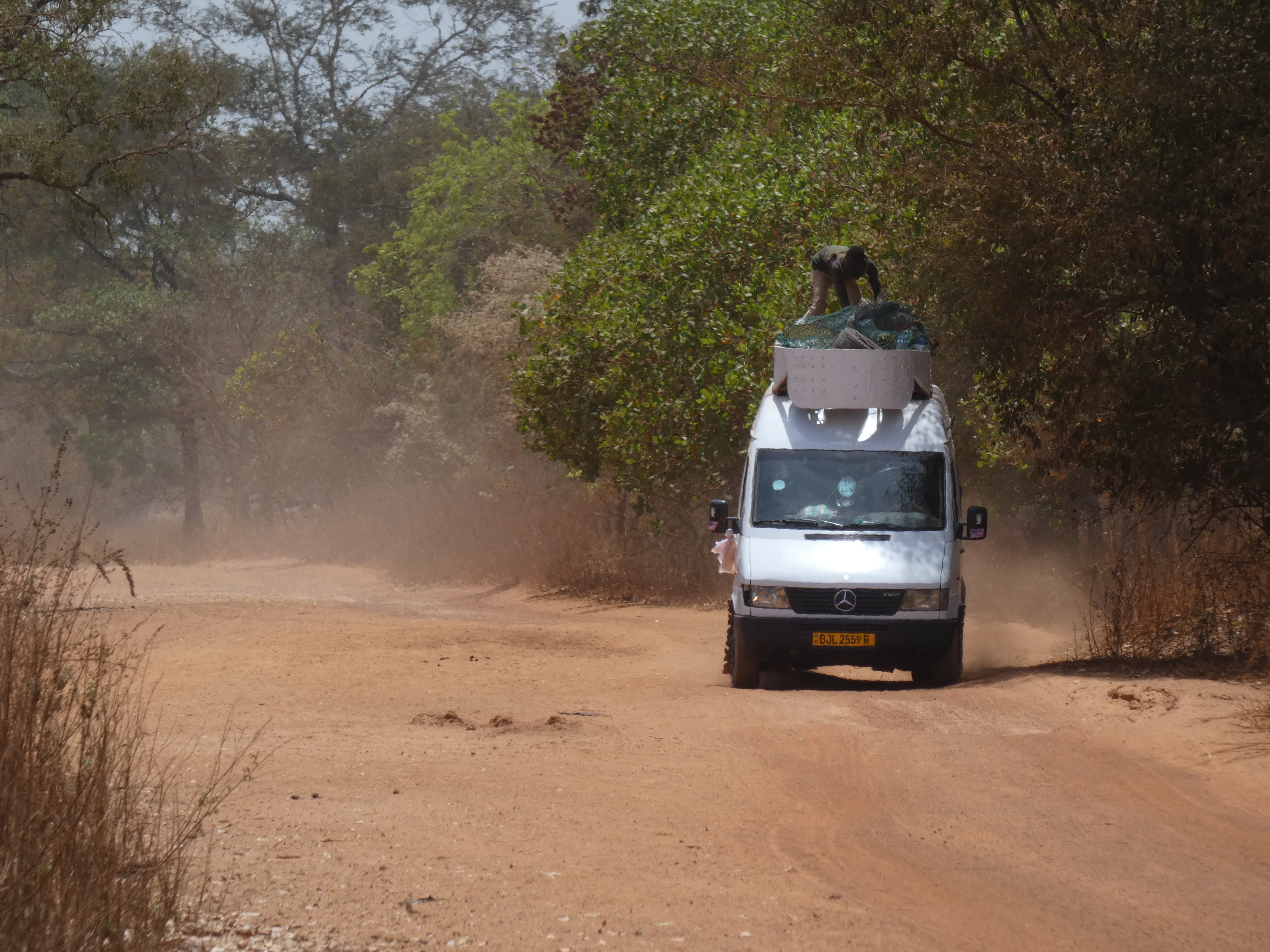 On the border of Guinee Bissau and Senegal. Return from gamou 'bayo kunda' from the village of Bidjini in Guinee Bissau. Every year in the village of Bidjini (where the country's oldest mosque is located) there is the 'bayo kunda' festival (gamou), which is attended by Muslims in large numbers, mainly from the Sose ethnic group This is an image with the theme "Africa on the Move or Transport" from: Guinea-Bissau